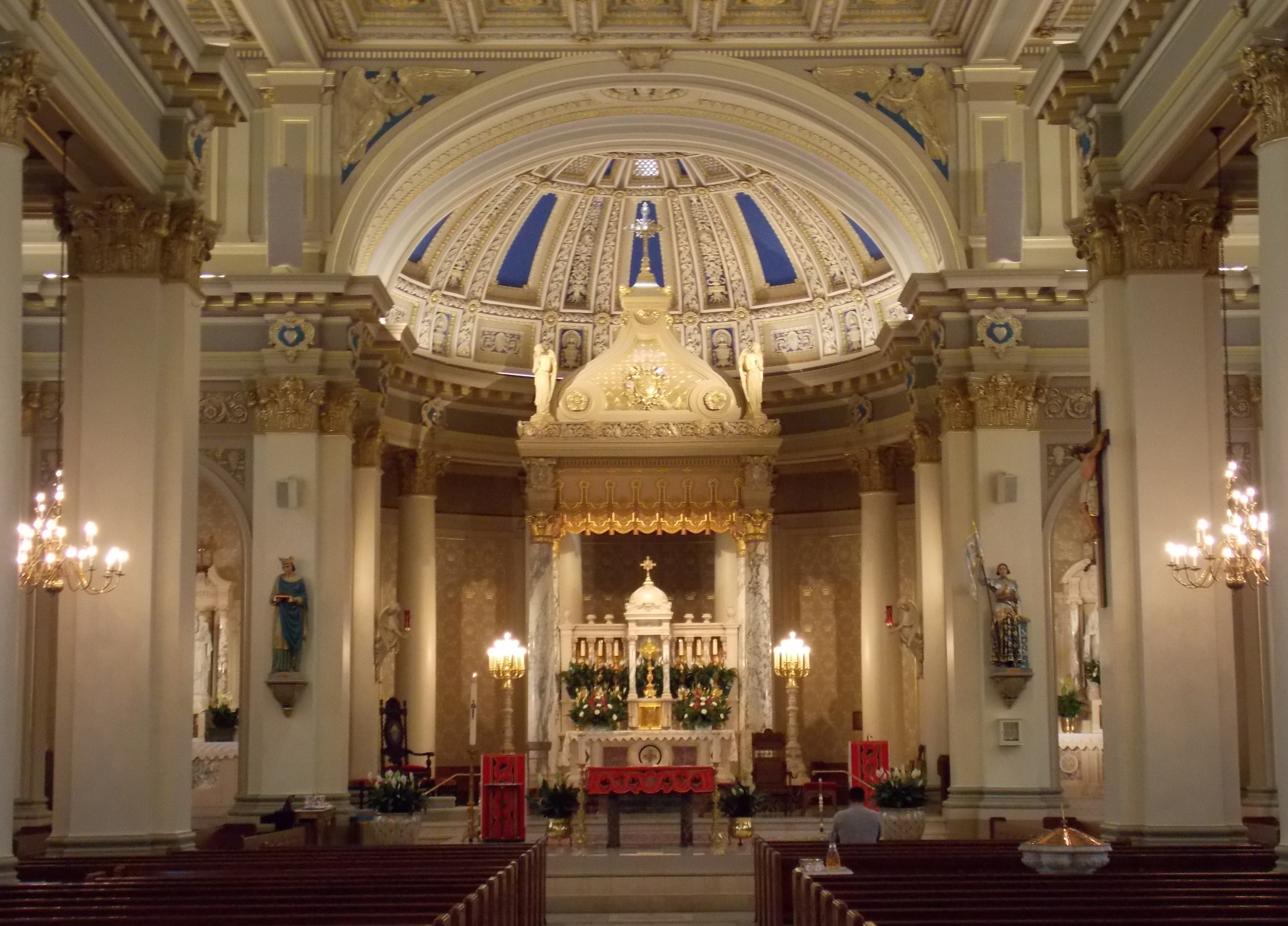 The interior of St. Joseph Co-Cathedral in Thibodaux, Louisiana. It is listed on the National Register of Historic Places.